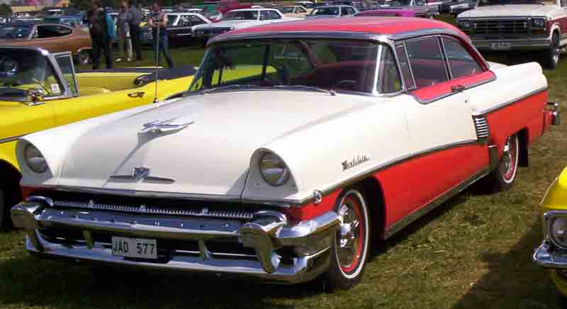 Mercury Montclair 1956